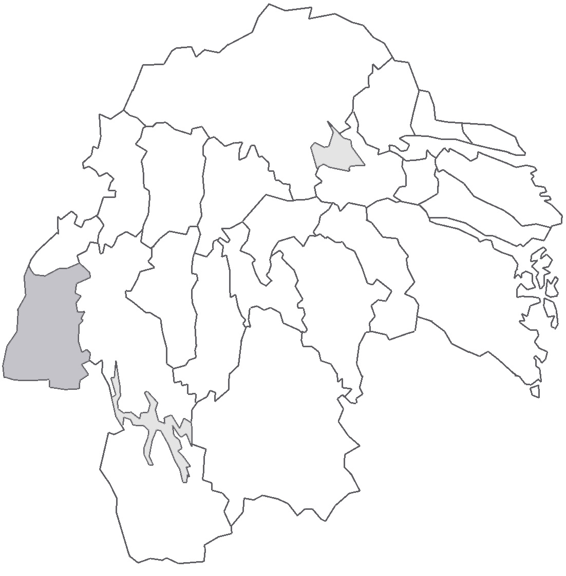 Map describing the location of Lysing Hundred in Östergötland County, Sweden.